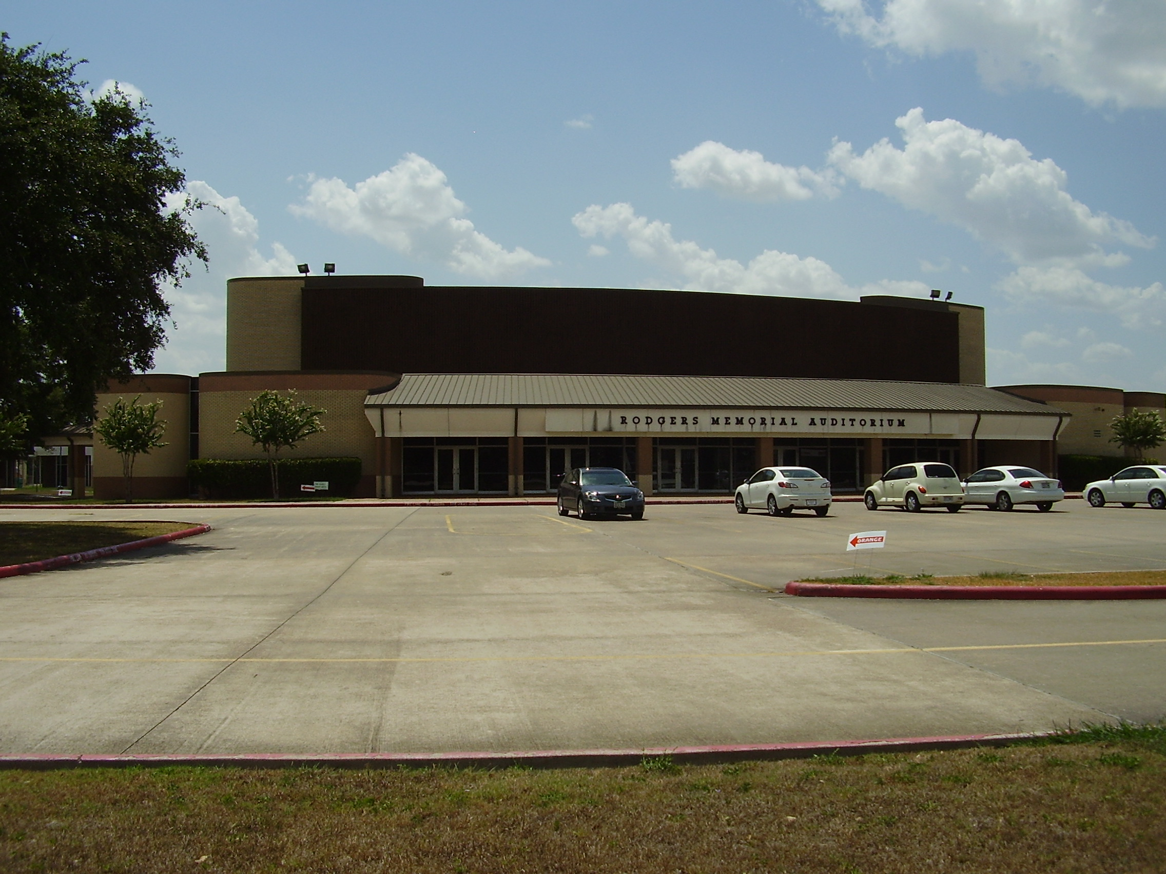 Rodgers Memorial Auditorium - Sugar Land, TX - On the campus of Dulles High School and Dulles Middle School